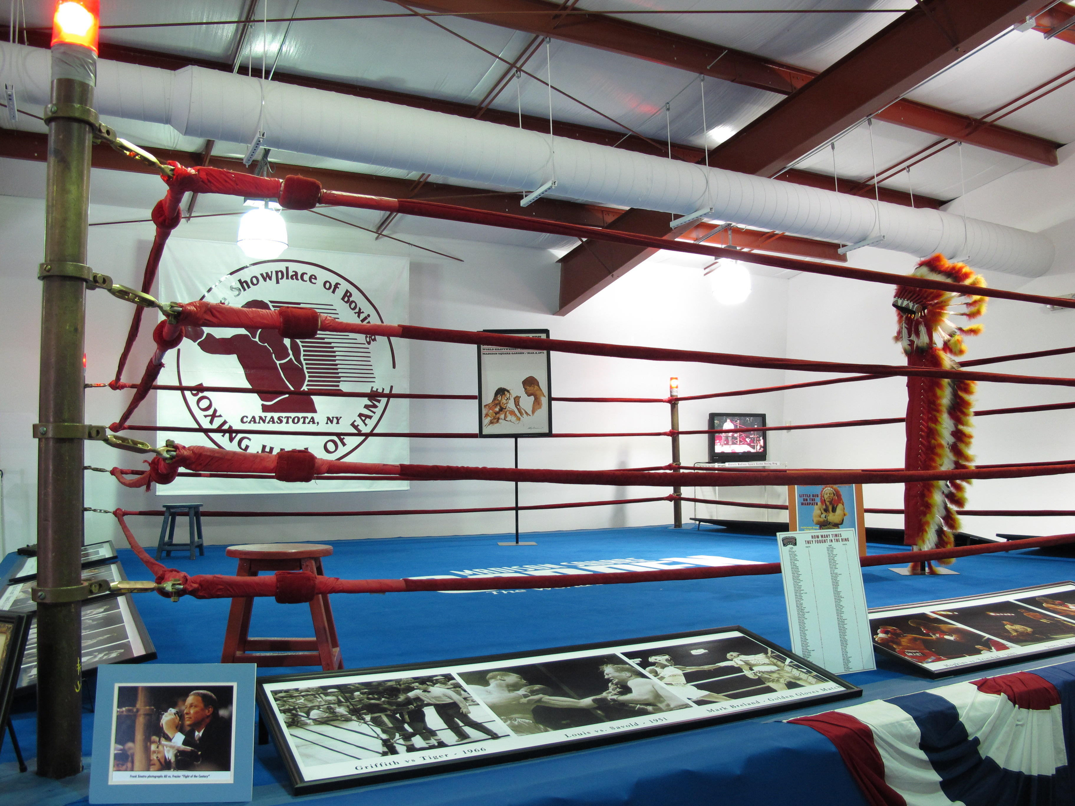 Exhibits at the International Boxing Hall of Fame in Canastota, New York, United States.